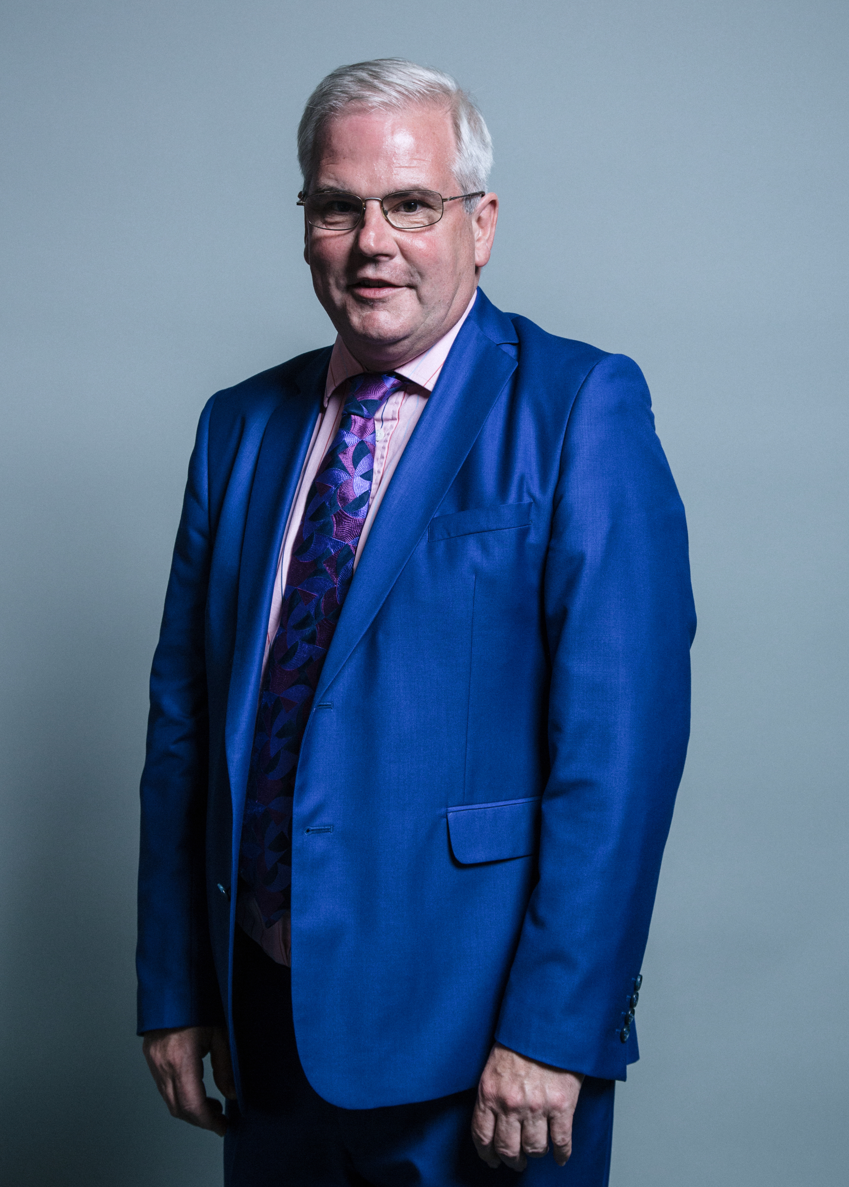 Official portrait of Mark Tami